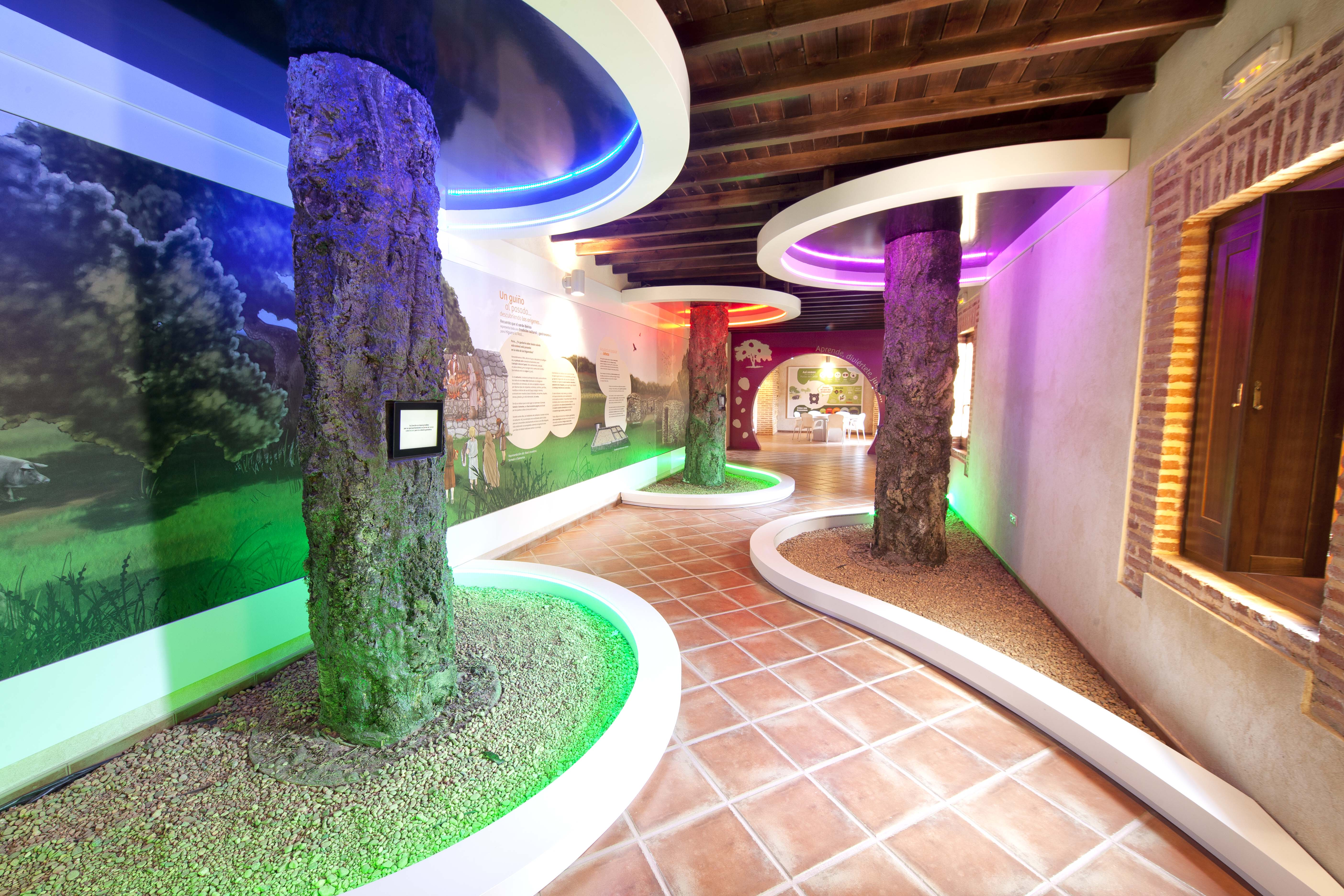 Imagen Centro de Interpretación del Cerdo Ibérico en Higuera la Real